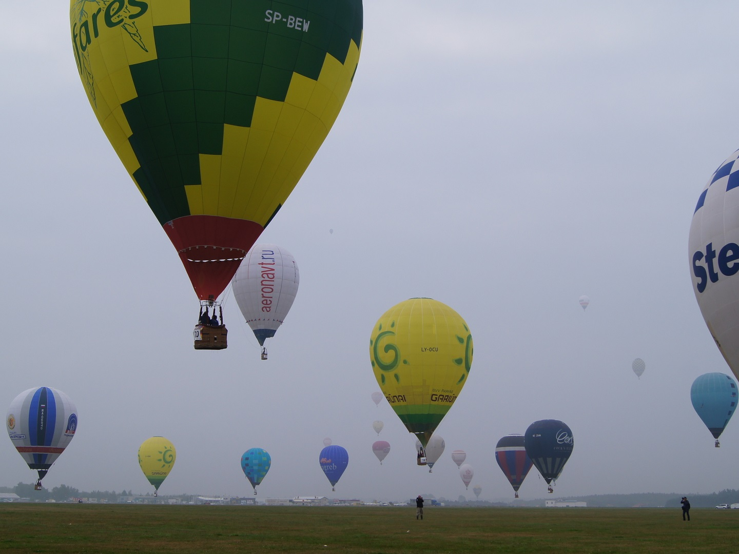 1st FAI Women’s World Hot Air Balloon Championship, Leszno 2014 - start